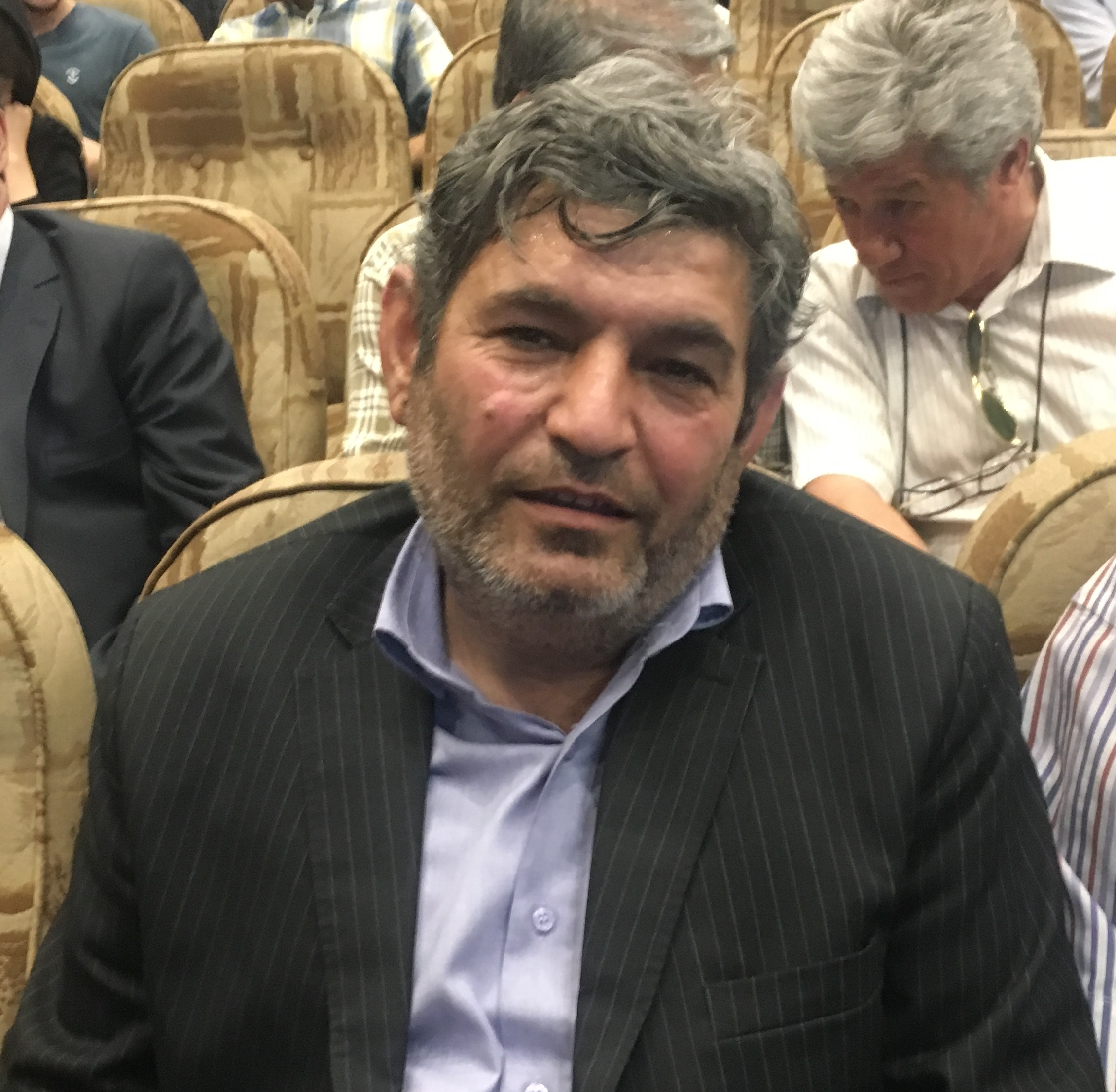 Ali vaqfchi Representative of Majlis of Islamic Republic of Iran from Zanjan during meeting about bill of rights in Zanjan, Iran